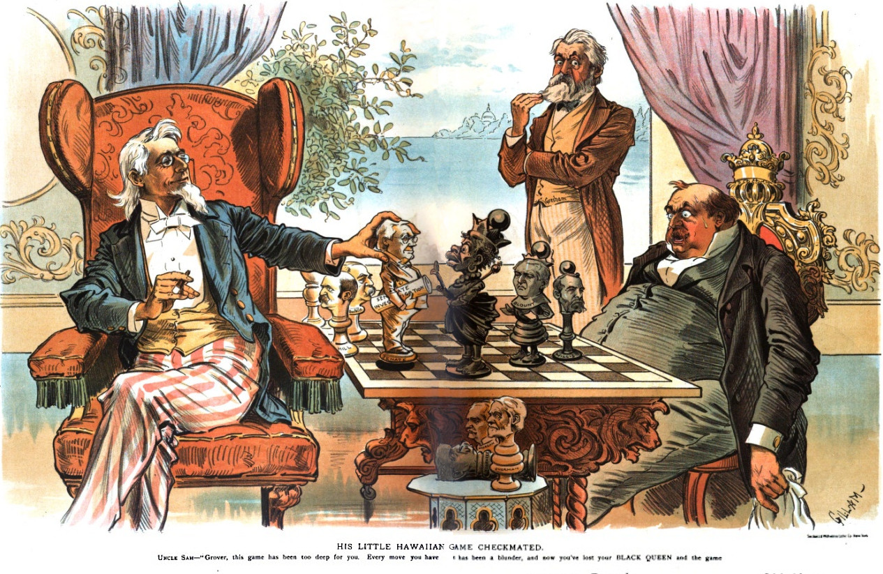 "His Little Hawaiian Game Checkmated". Uncle Sam and Grover Cleveland are playing chess with pieces representing the U.S. Senators and Queen Liliʻuokalani. Caption: Uncle Sam: "Grover this game has been too deep for you. Every move you've made has been a blunder, and now you've lost your Black Queen and the game.